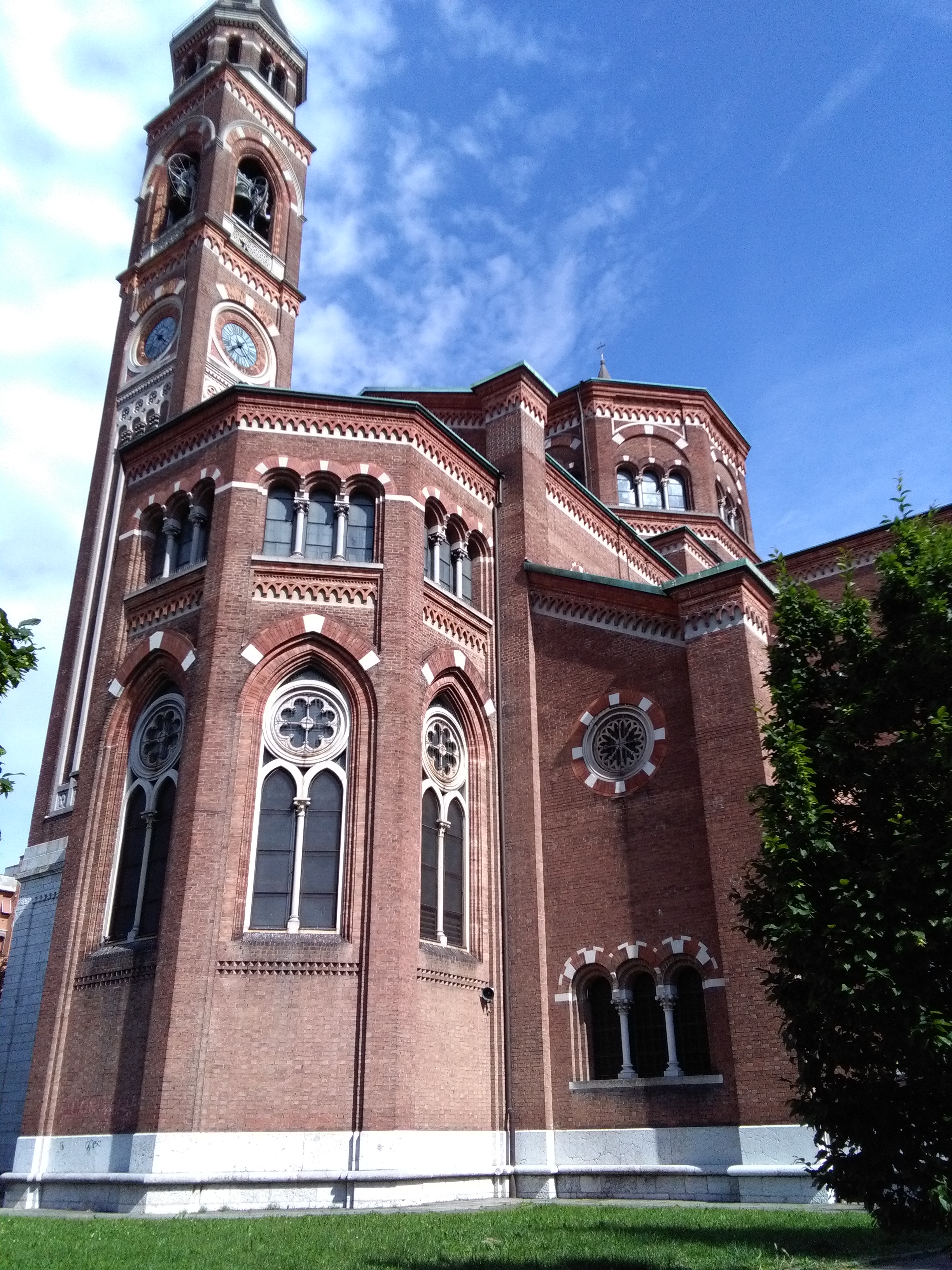 Prepositurale di Lissone, Abside, Campanile e Cupola